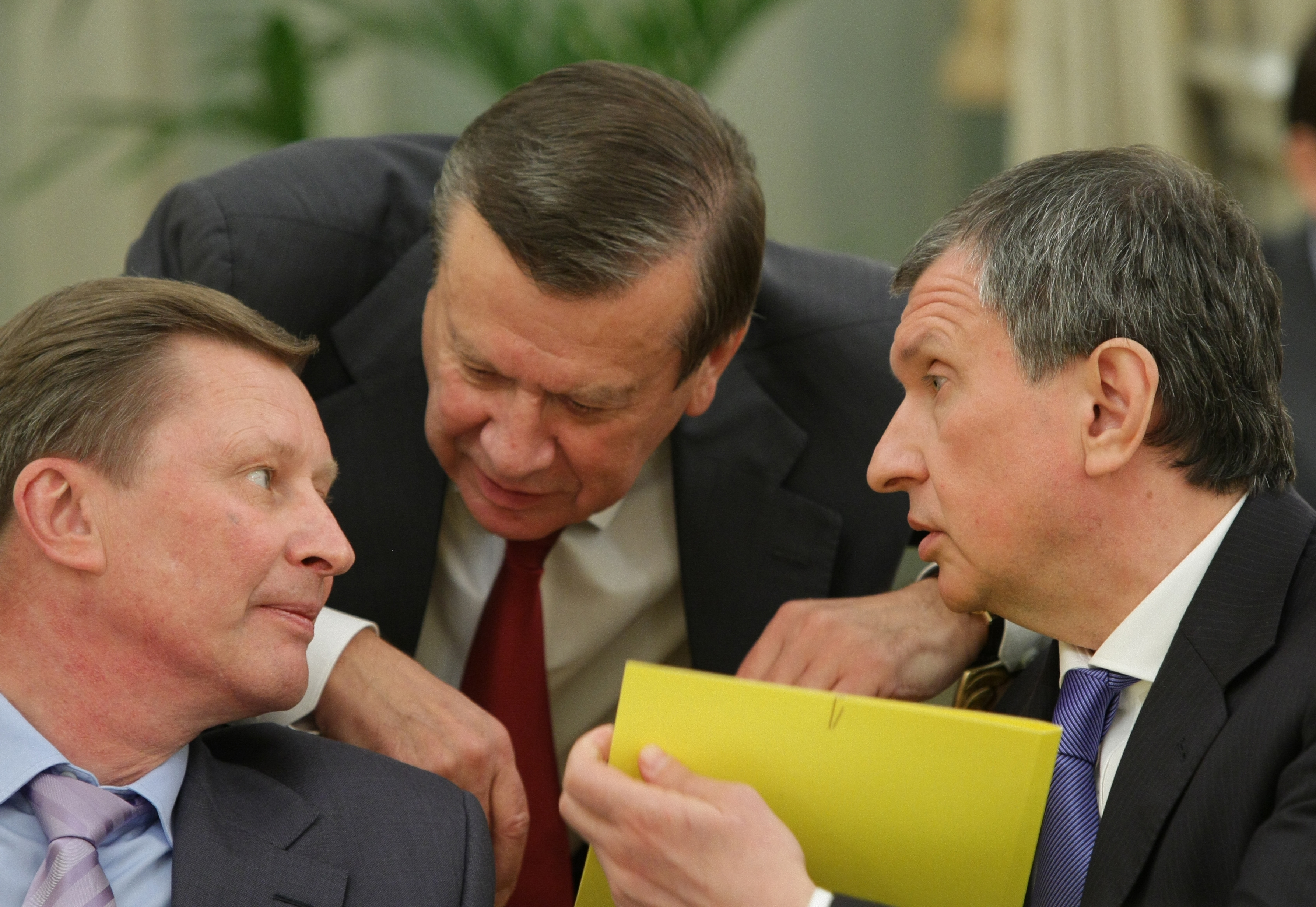 Deputy Prime Minister Sergei Ivanov, First Deputy Prime Minister Viktor Zubkov and Deputy Prime Minister Igor Sechin among the attendees of the Government Presidium meeting